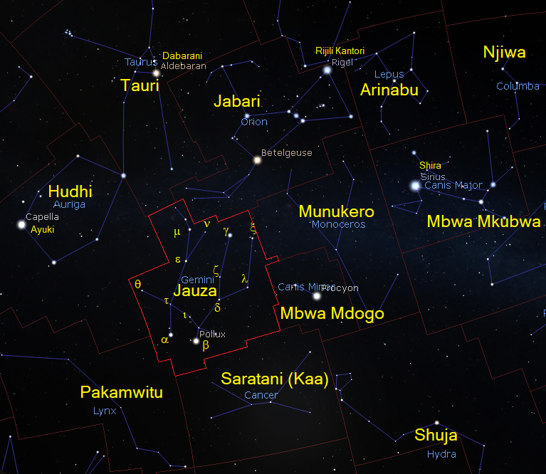 Constellation Gemini as seen from Tanzania, Swahili labelled Kiswahili: Kundinyota Jauza (Mapacha - Gemini) jinsi inavyoonekana kutoka Tanzania, majina kwa Kiswahili